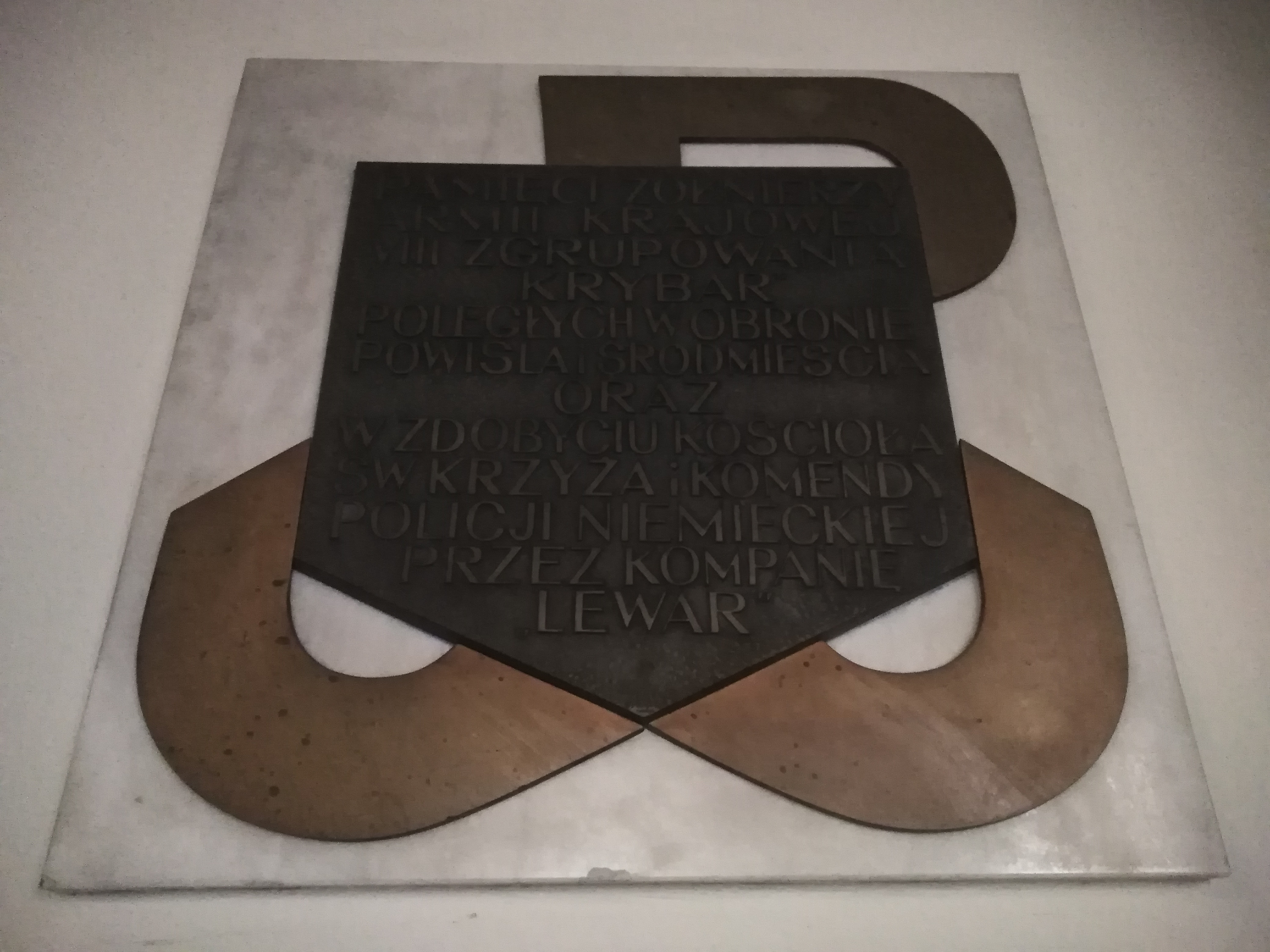 The Church of the Holy Cross in Warsaw, Our Lady of Częstochowa’s chapel. Plaque commemorating soldiers of Home Army „Lewar” company of „Krybar” regiment who retook this church from the German troops during the Warsaw Uprising of 1944.